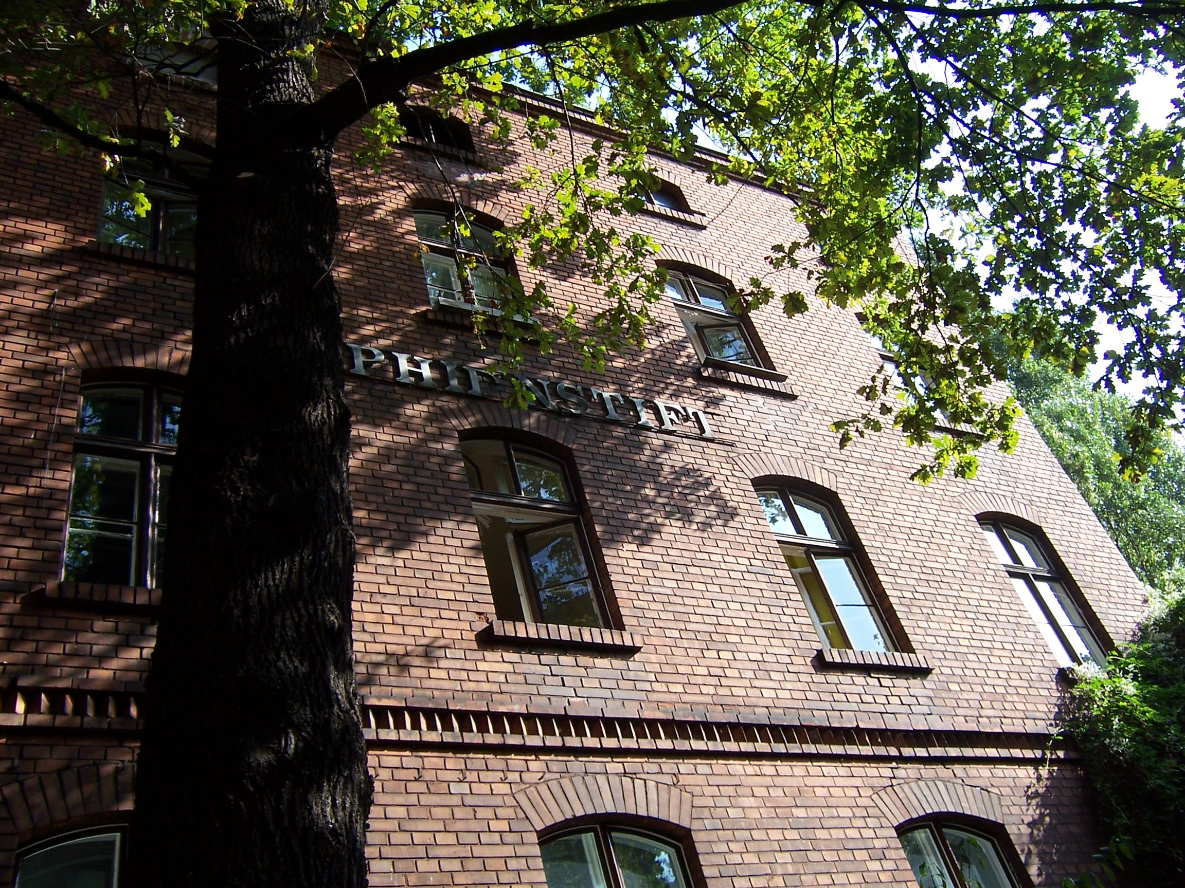 sophienstift